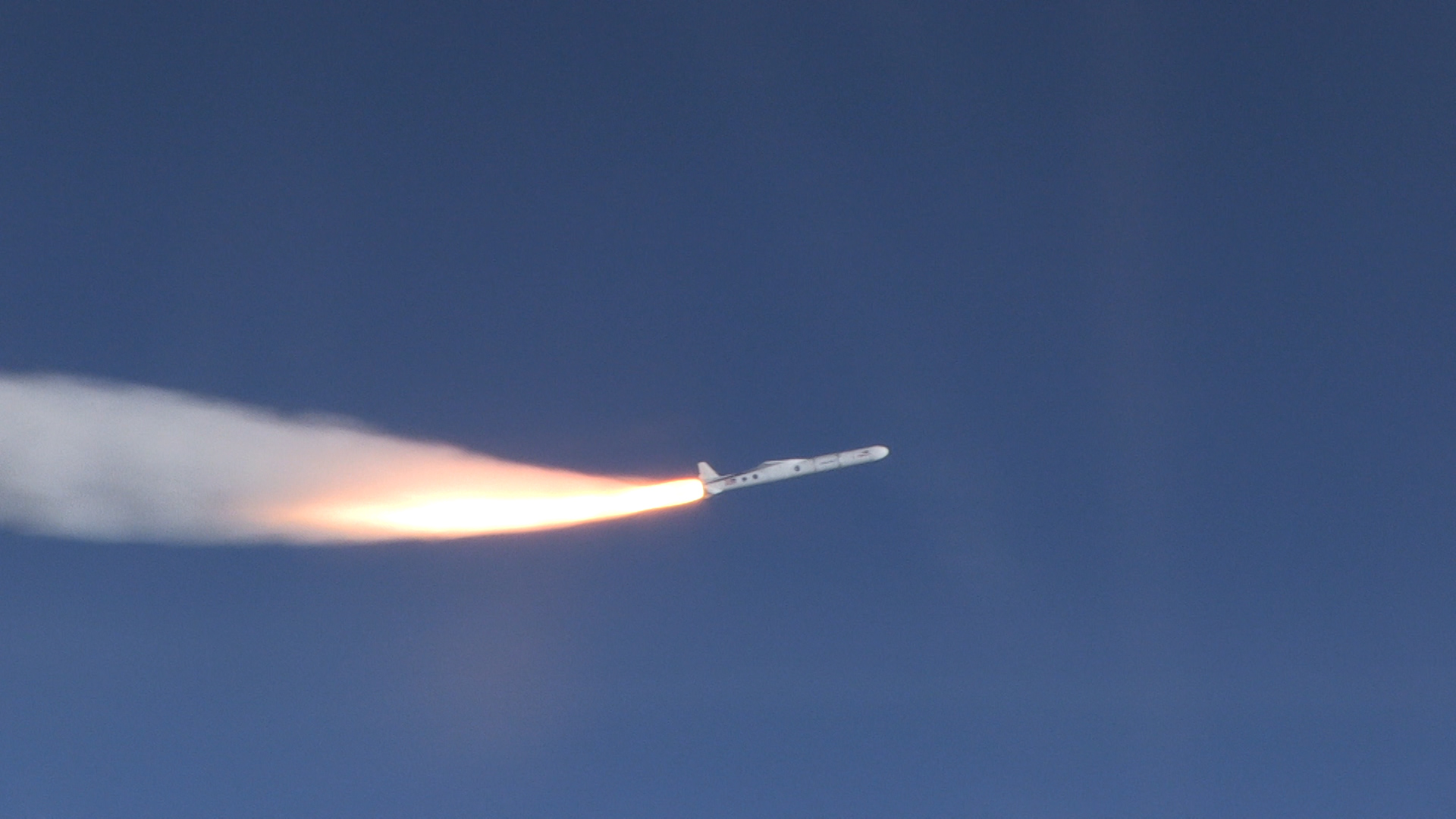 The Orbital ATK Pegasus XL rocket carrying NASA's Cyclone Global Navigation Satellite System, or CYGNSS, spacecraft is released and the first stage ignites at 8:37 a.m. EST. The rocket was released from the Orbital ATK L-1011 Stargazer aircraft flying over the Atlantic Ocean offshore from Daytona Beach, Florida following takeoff from the Skid Strip at Cape Canaveral Air Force Station. This image was taken from a NASA F-18 chase plane provided by Armstrong Flight Research Center in California. The CYGNSS satellites will make frequent and accurate measurements of ocean surface winds throughout the life cycle of tropical storms and hurricanes.